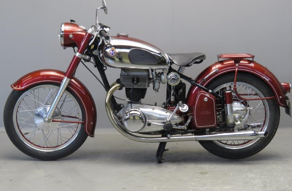 1953 Horex Regina 350 cc OHV single cylinder motorcycle, left side